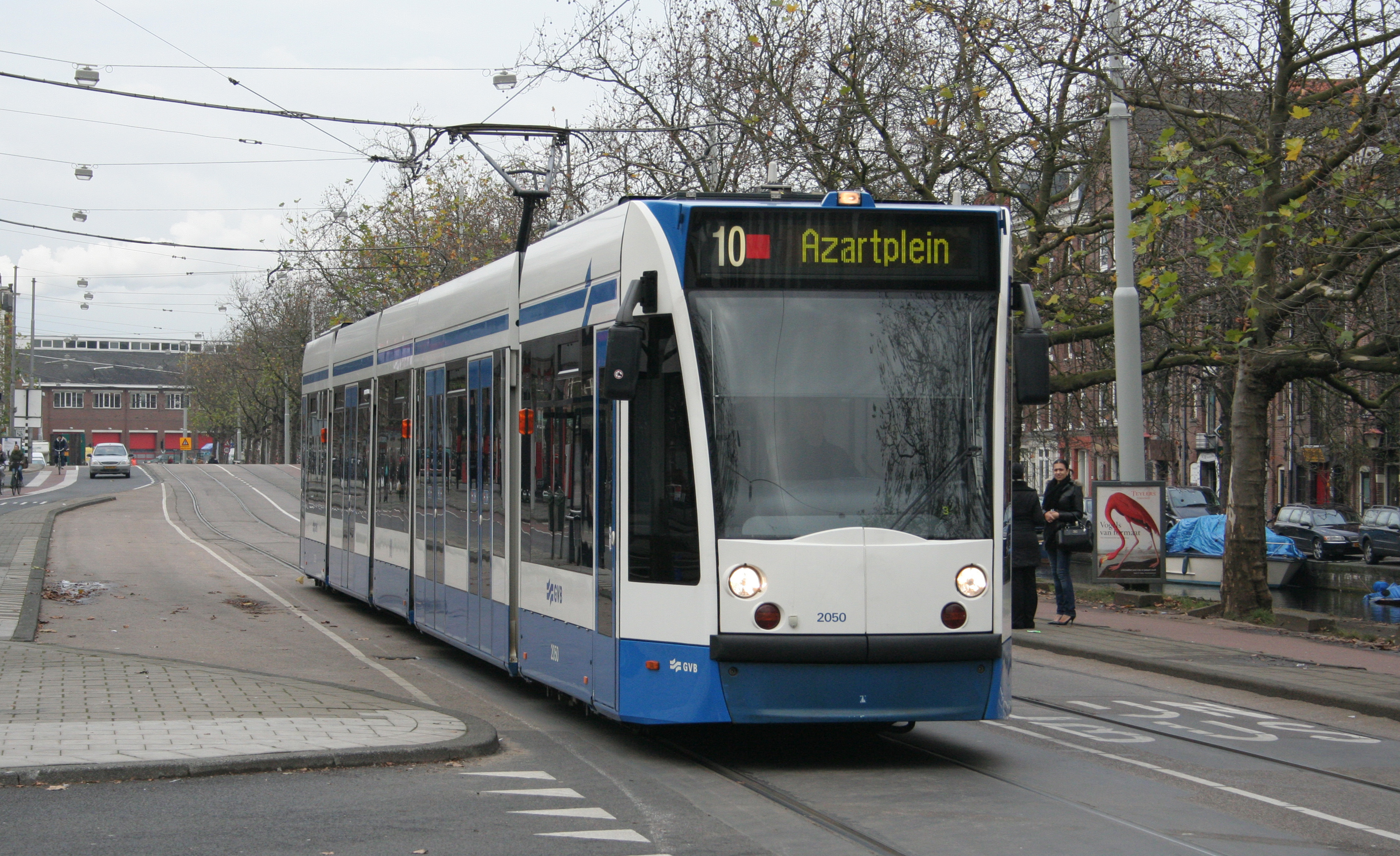 Amsterdam Combino of GVB in the Marnixstraat